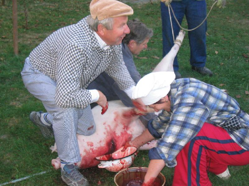 Zabijačka (traditional pig slaughter) in Moravia, Czech republic.